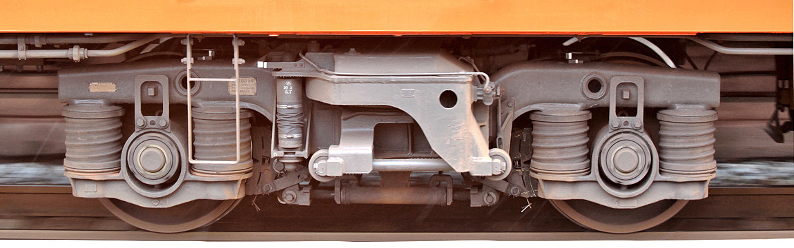 Type DT46B bogie truck of JNR 201 series EMU, belongs to the JR West.